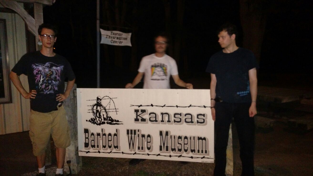 Noah Britton, New Michael Ingemi, and Jack Hanke of Asperger's Are Us at The Barbed Wire Museum in Lacrosse, Kansas, USA